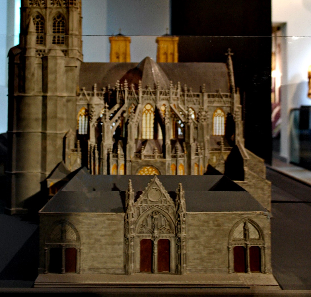 Model of Saint Lambert's Cathedral in Liège in the Grand Curtius museum, Liège, Belgium.